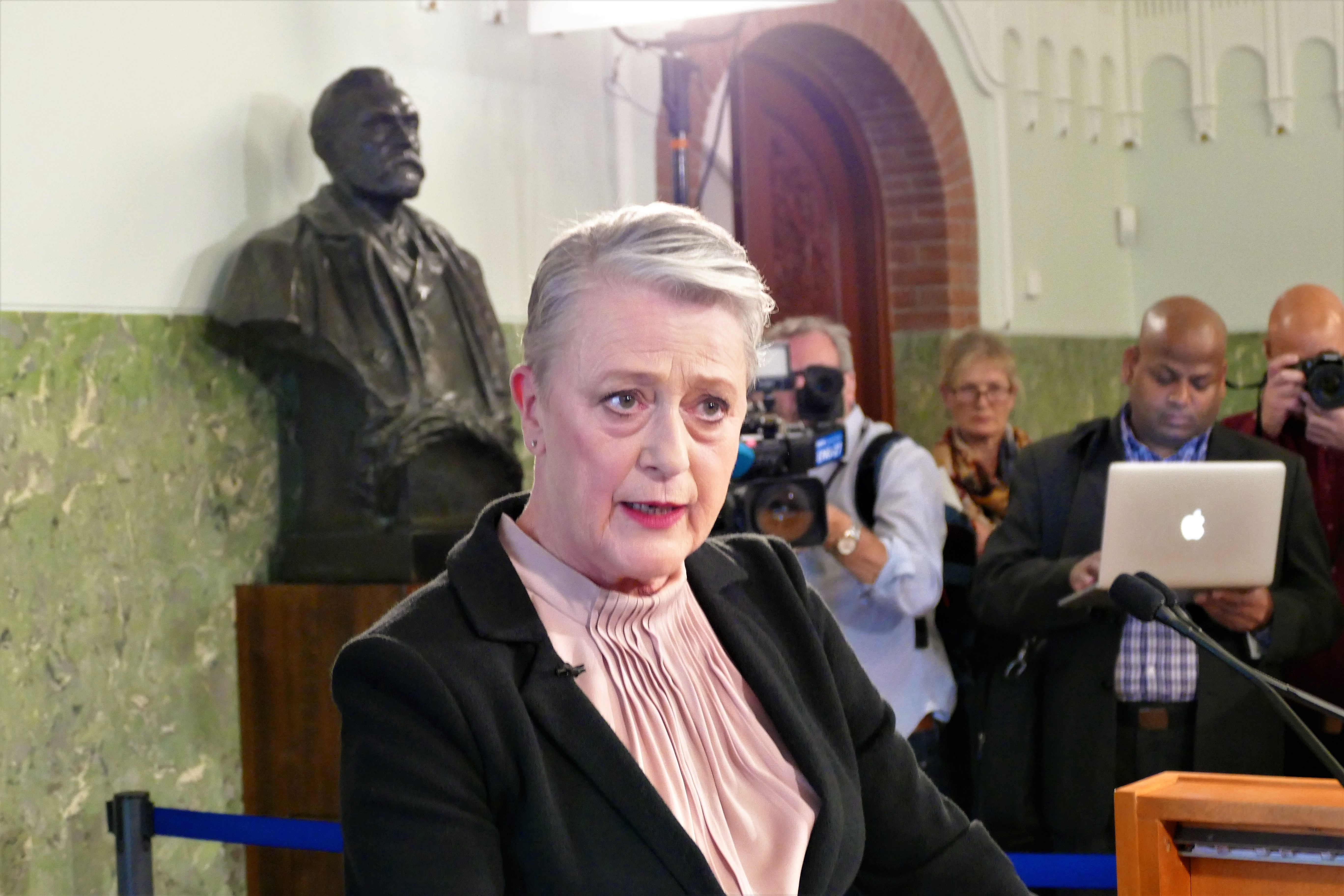 Berit Reiss-Andersen, chairwoman of the Norwegian Nobel Committee, announcing the 2018 prize.